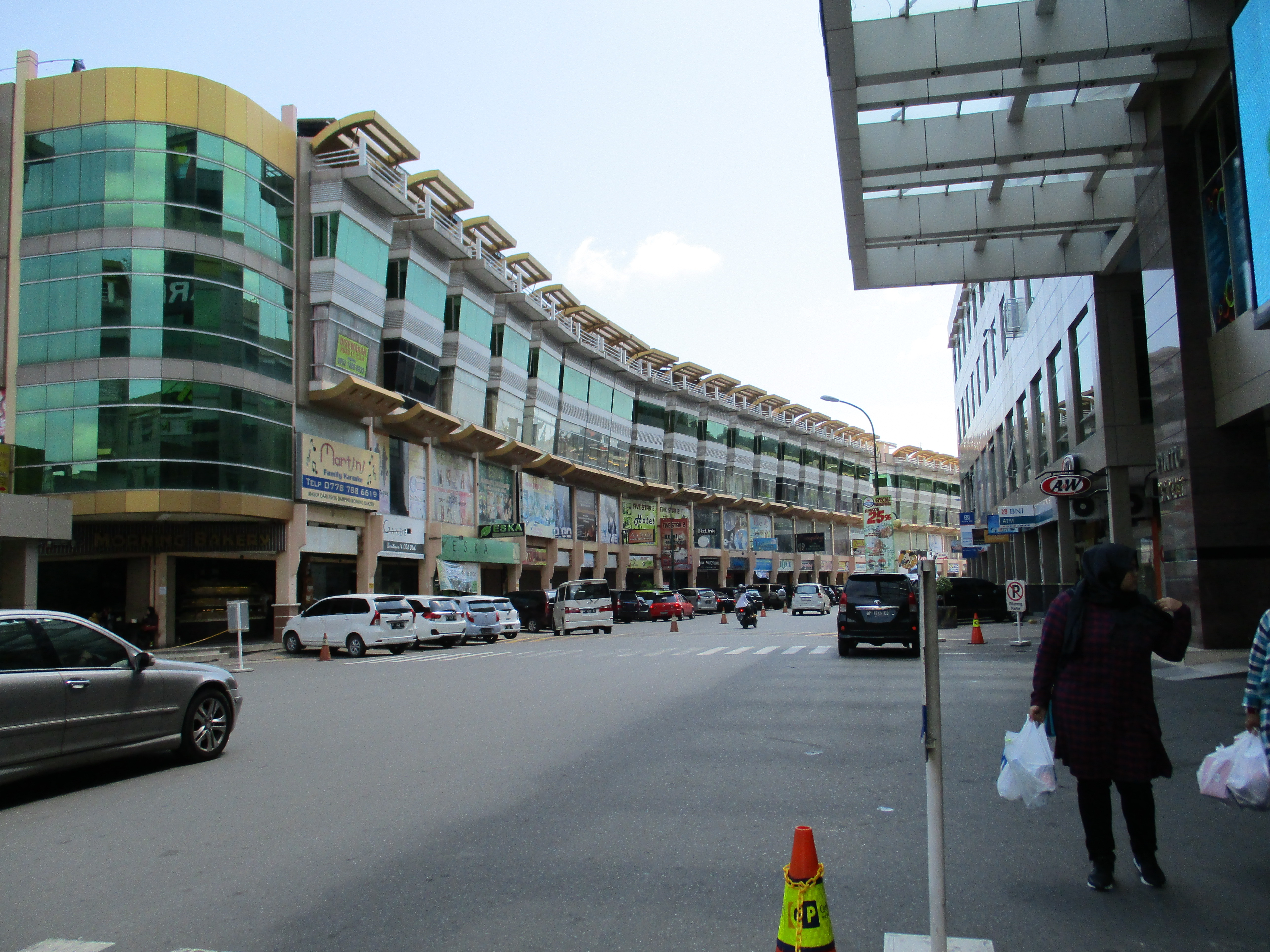 Nagoya shopping malls in Batam, Indonesia.